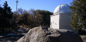 From the website of NPACI (a project of the National Science Foundation).